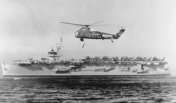 The U.S. Navy helicopter carrier USS Thetis Bay (CVHA-1) between 1955 and 1957, when CVHA-1 became LPH-6. A Sikorsky HUS-1 Seahorse helicopter of U.S. Marine Corps squadron HMR-362 demonstrates a rescue at sea.